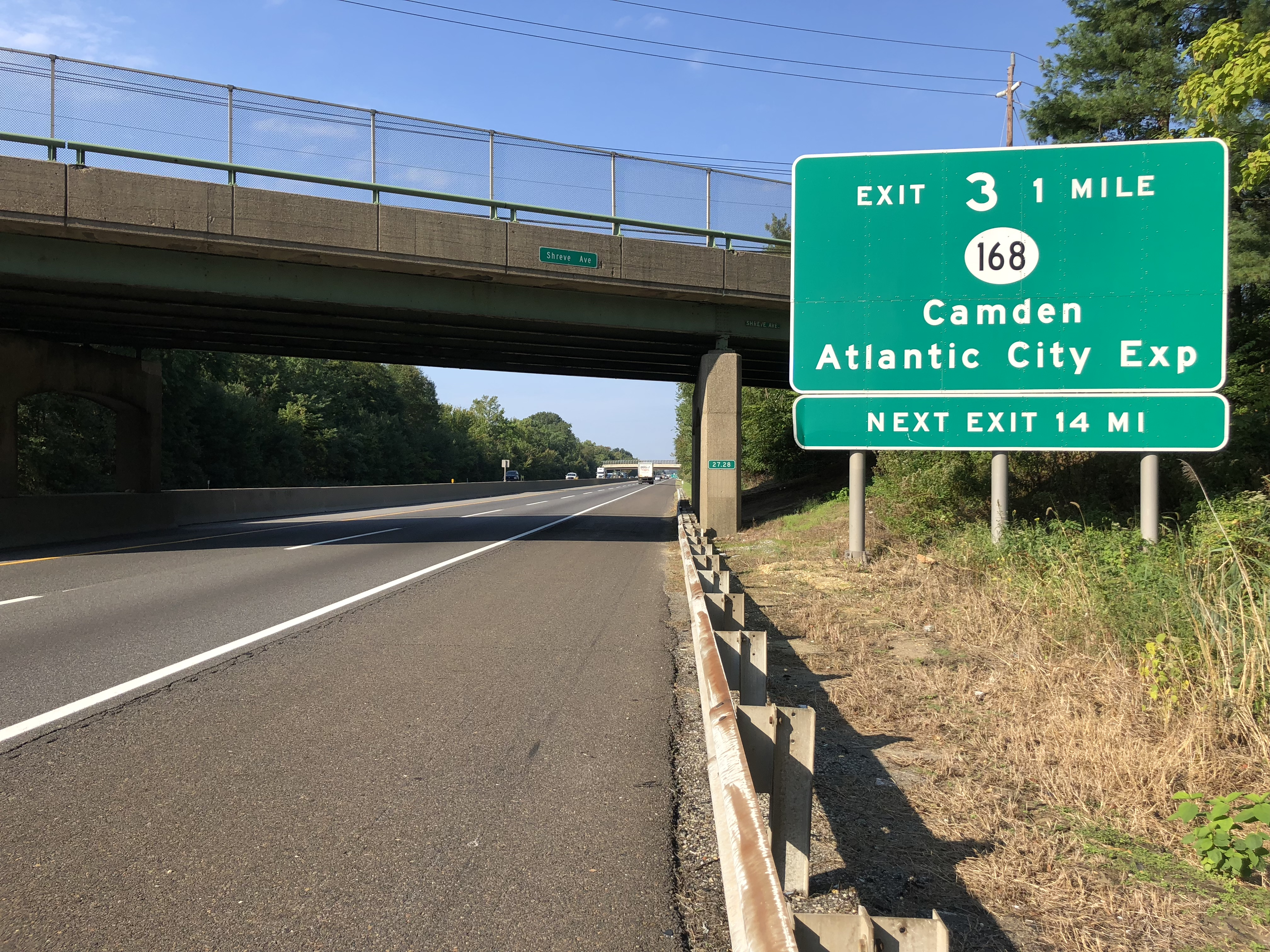 View south along New Jersey State Route 700 (New Jersey Turnpike) just north of Exit 3 (New Jersey Route 168, Camden, Atlantic City Expressway) in Barrington, Camden County, New Jersey